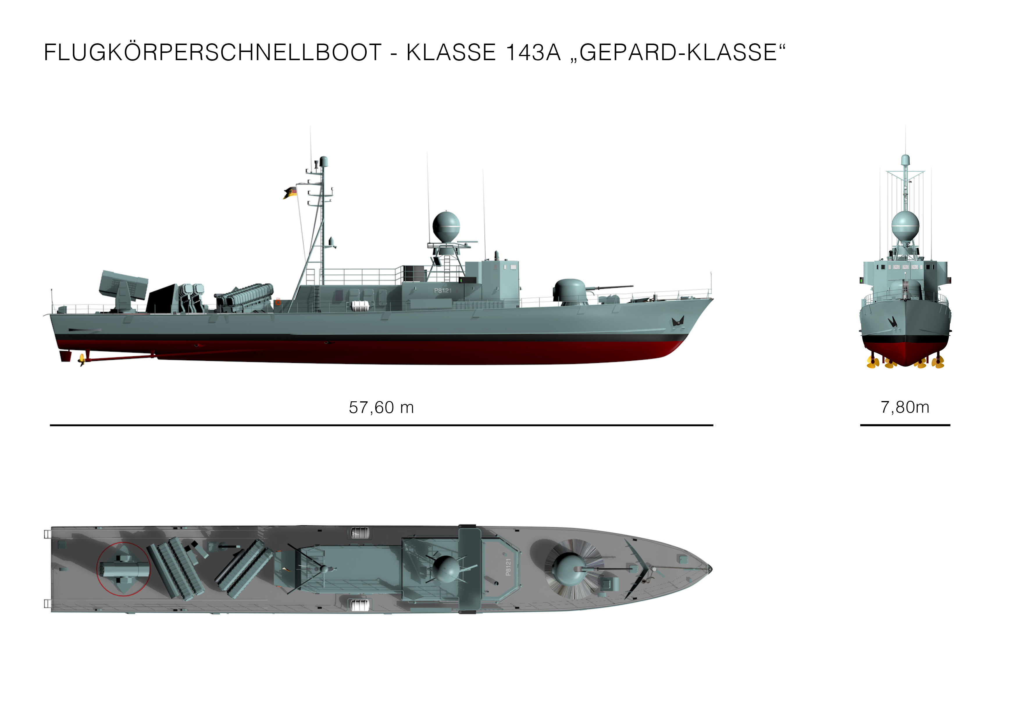 Three side view missile fast boat of the "Cheetah class of the German Navy / German Navy